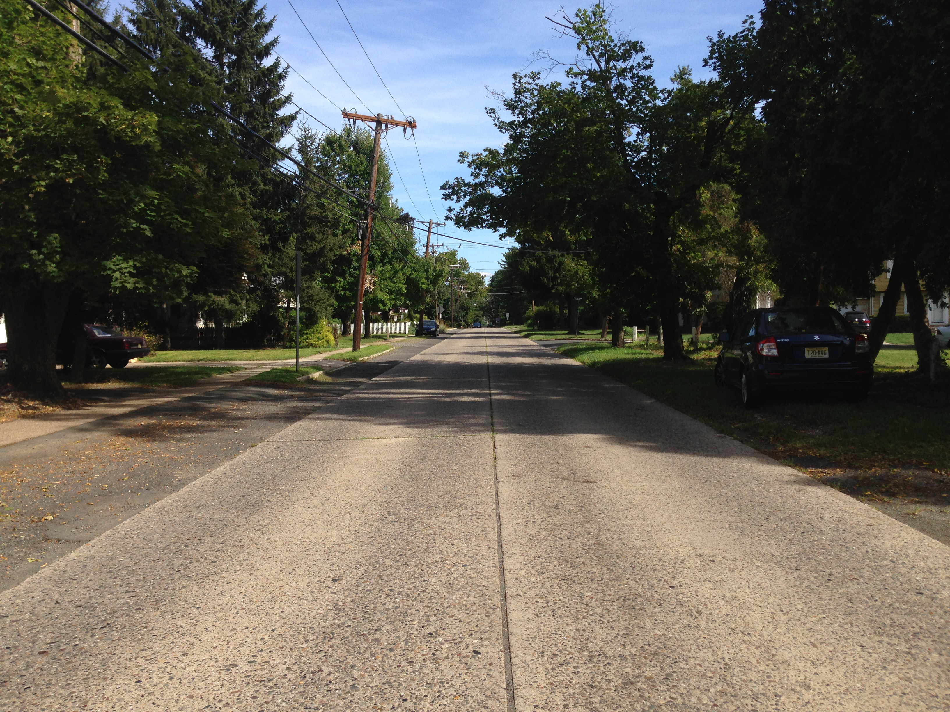 View southeast along Stuyvesant Avenue in Ewing, New Jersey, with concrete pavement likely dating to the 1950s